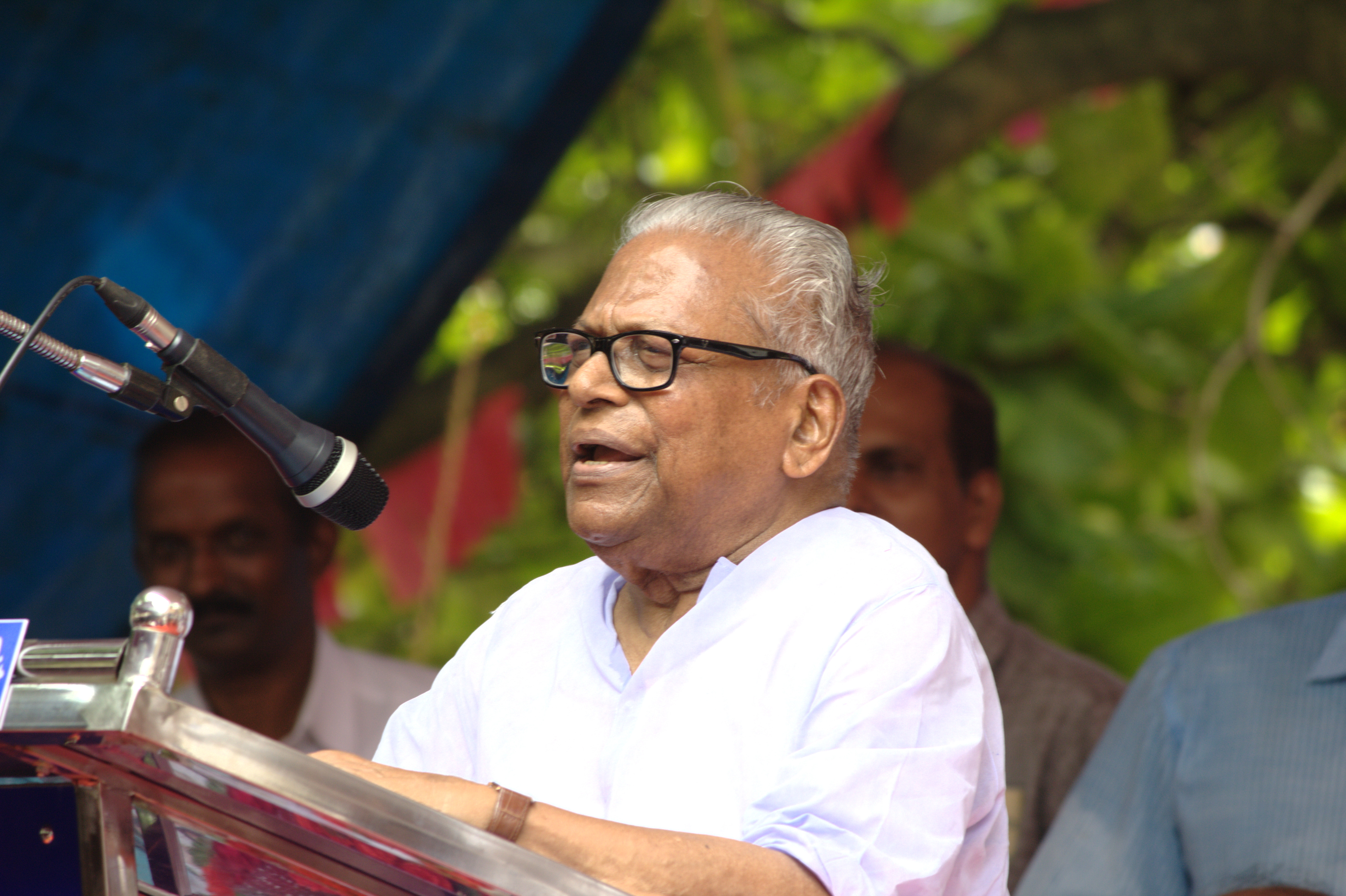 V. S. Achuthanandan campaigning for LDF Candidate for Kanjirappally niyamasabha constituency - V.B. Binu at Ponkunnam Rajendra ground.